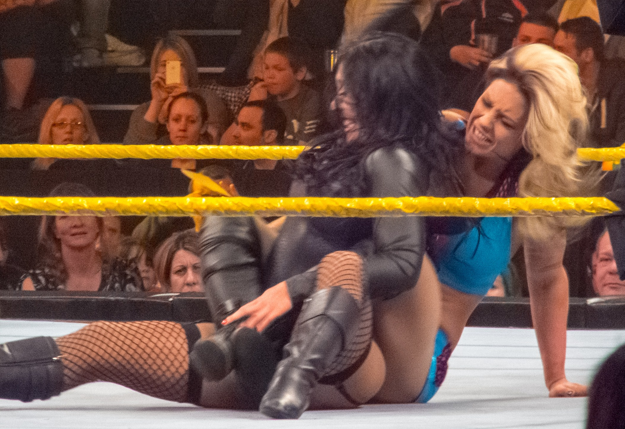 Professional wrestler Kaitlyn using a bodyscissors submission hold on Maxine